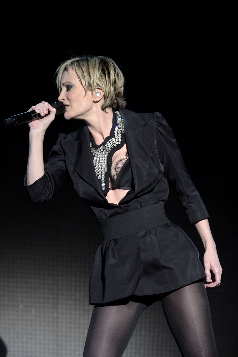 Patricia Kaas, Vilnius, Lithuania. 2009-04-24